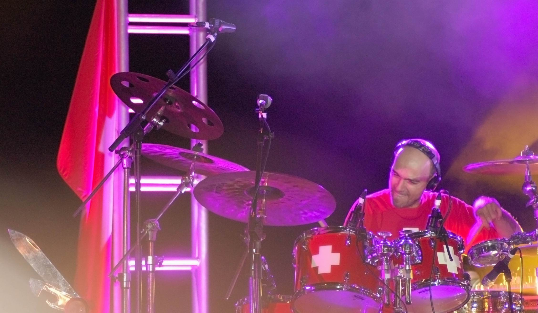 Italian/Swiss drummer Christian Meyer of the comedy rock group Elio e le Storie Tese, performing on stage in Cesenatico